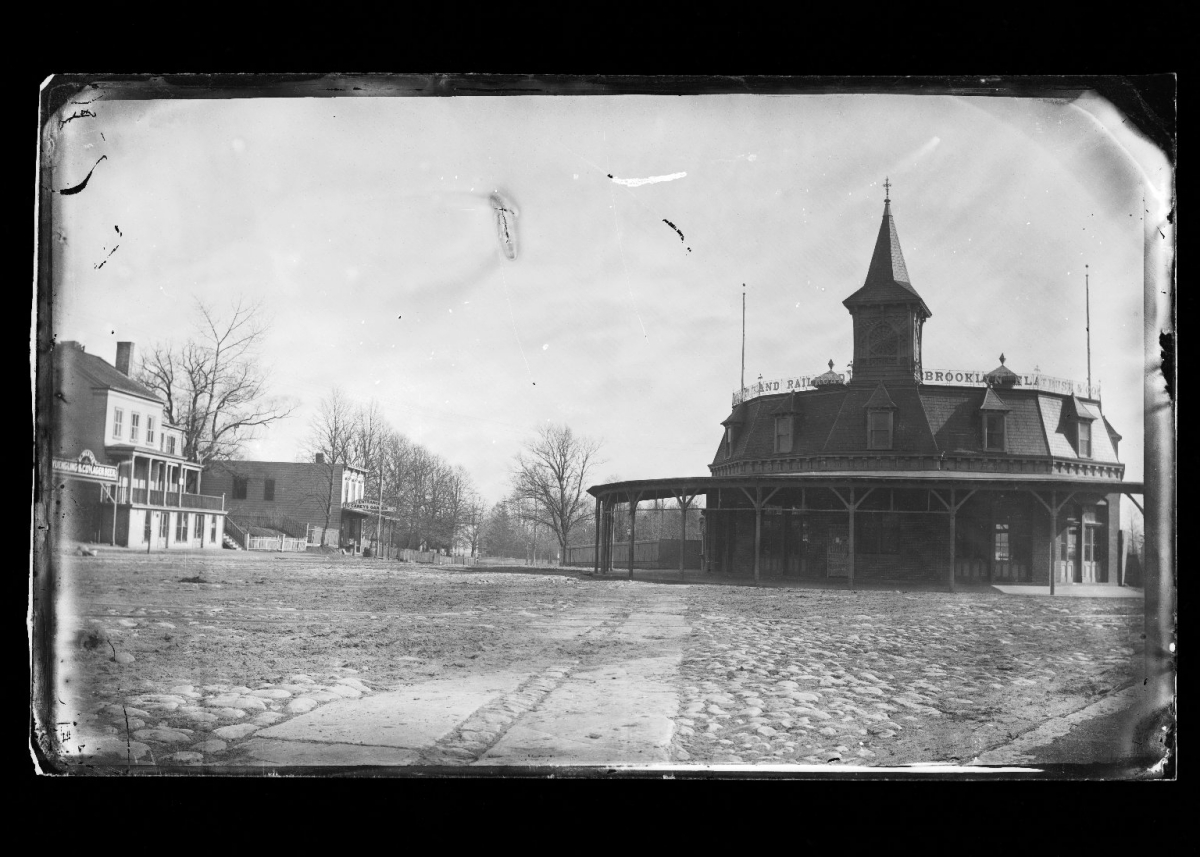 George Bradford Brainerd (American, 1845-1887). Railroad Station, Coney Island, Brooklyn, ca. 1872-1887. Wet-collodion negative. Prints, Drawings and Photographs. Brooklyn Museum/Brooklyn Public Library, Brooklyn Collection, 1996.164.2-389. (1996.164.2-389_glass_IMLS_SL2.jpg) Thank you, vigliante! This image has been geotagged by vigliante so Brooklyn could be part of the Historypin launch on July 11, 2011. Want to help? See if you can place any of these images on a map! More about #mapBK